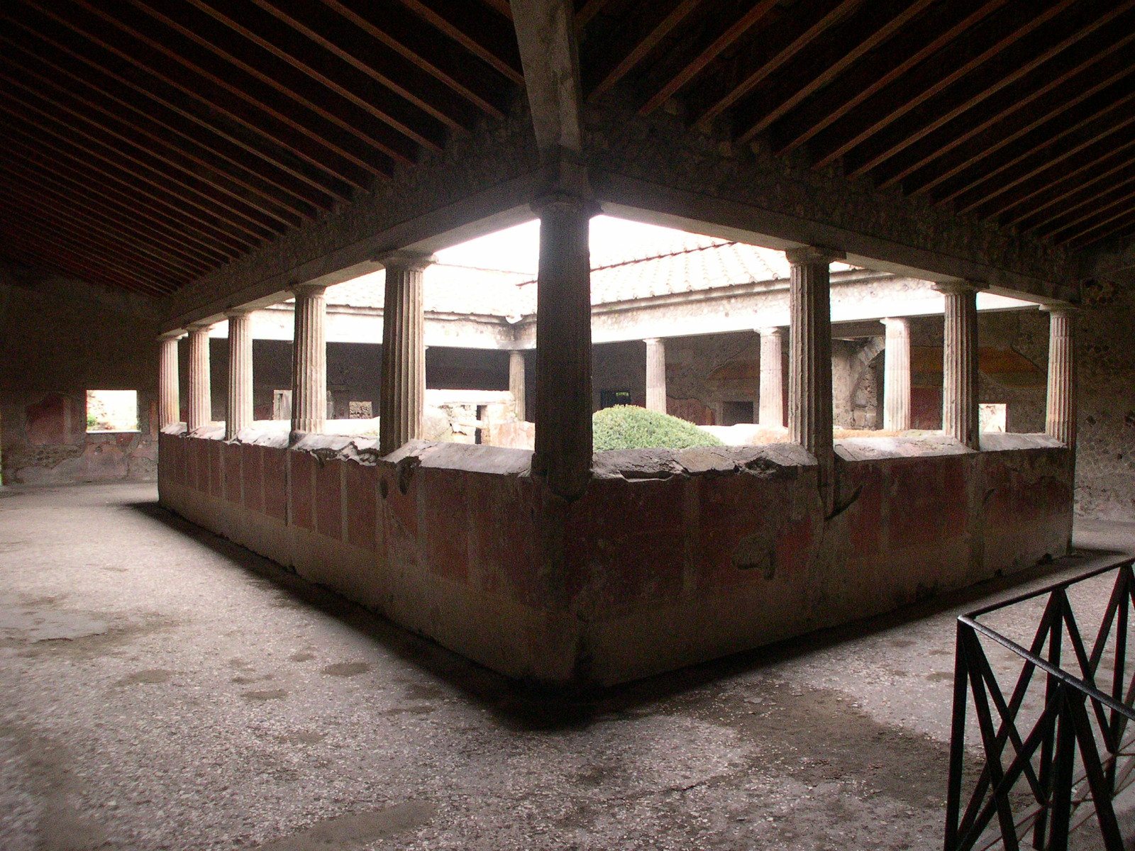 Peristyle of the Villa of the Mysteries, Pompeii